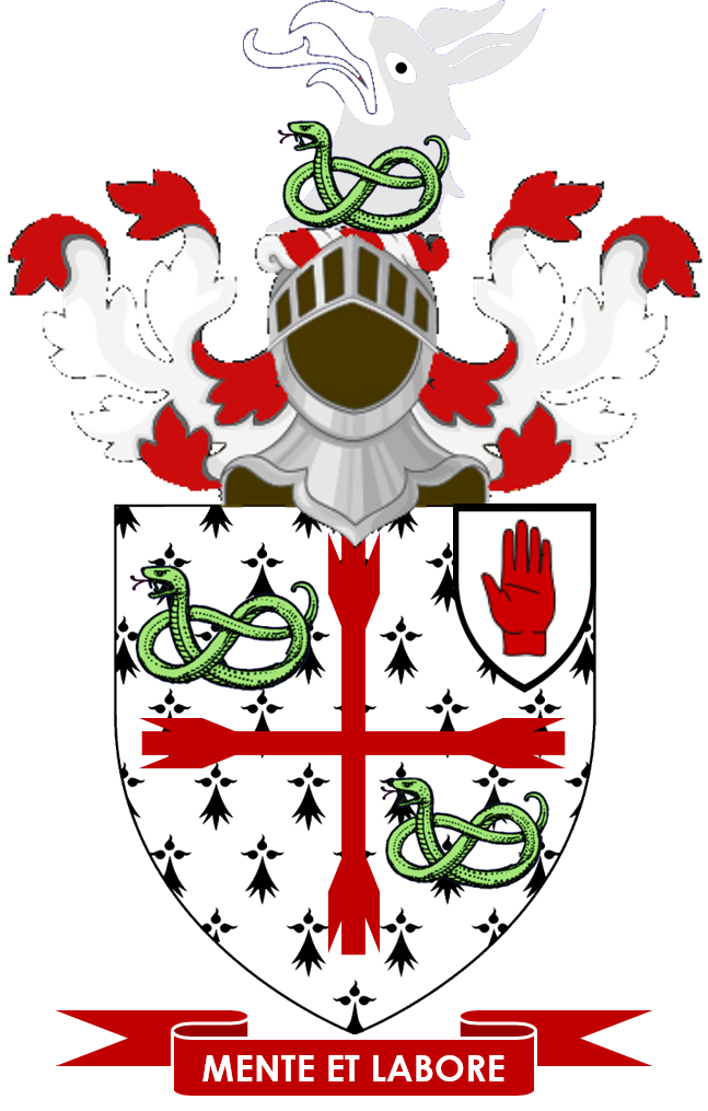 The armorial achievement of the Lawrence baronets of Ealing Park